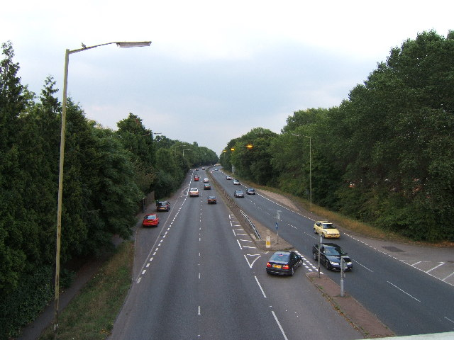 A309 from footbridge near Hinchley Wood. Looking east.